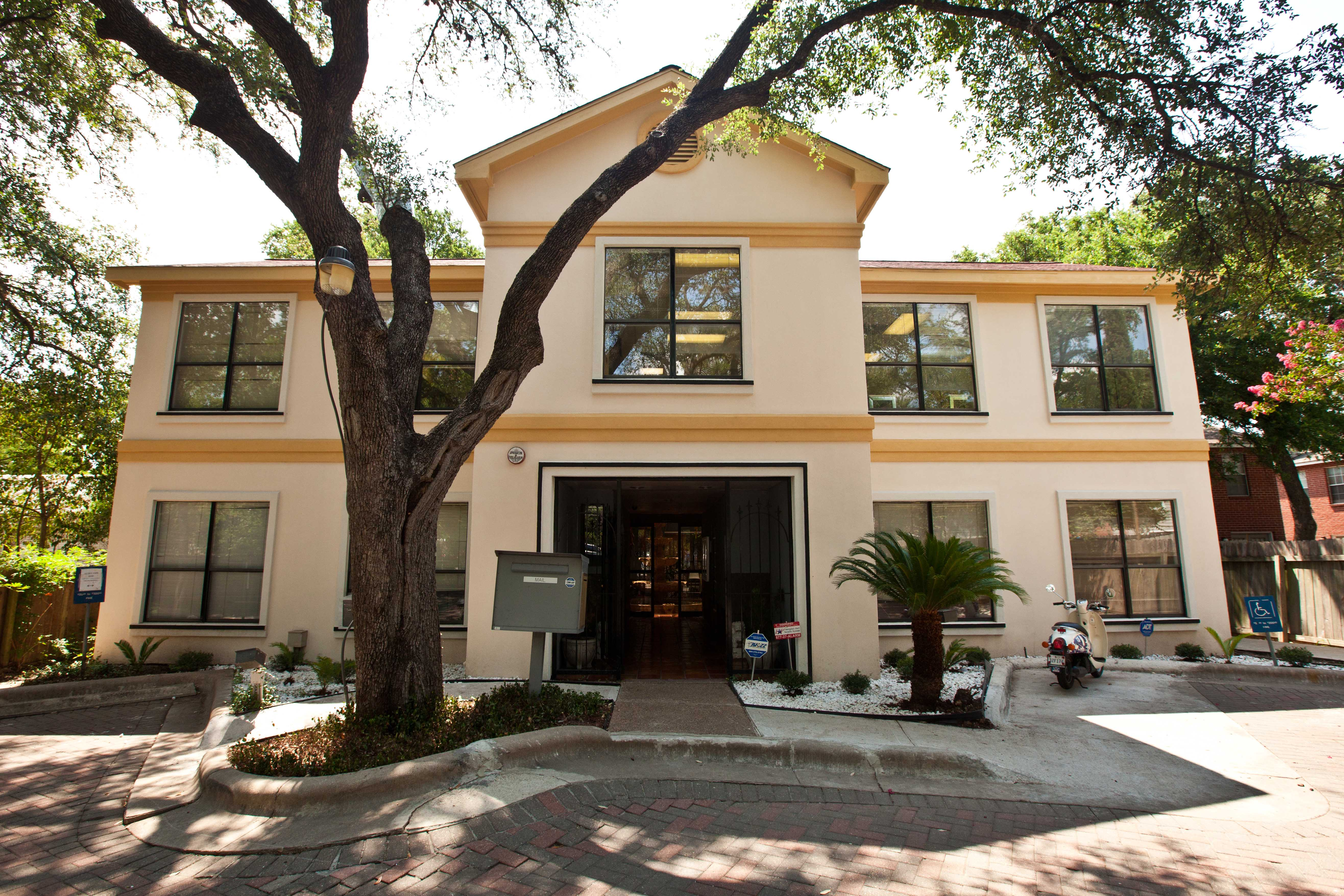 The front exterior of the Texas Health and Science University.